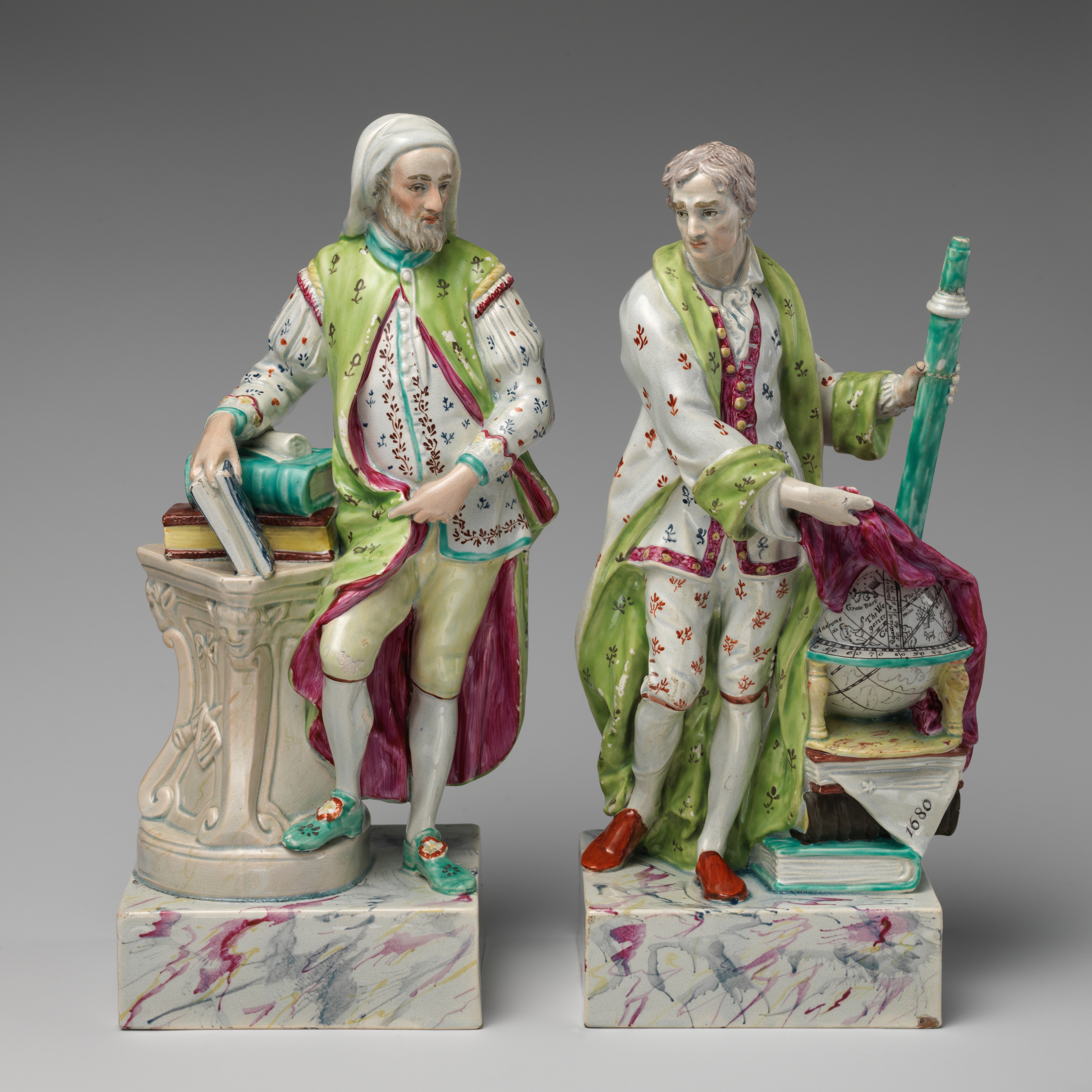 British, Burslem, Staffordshire; Figure; Ceramics-Pottery